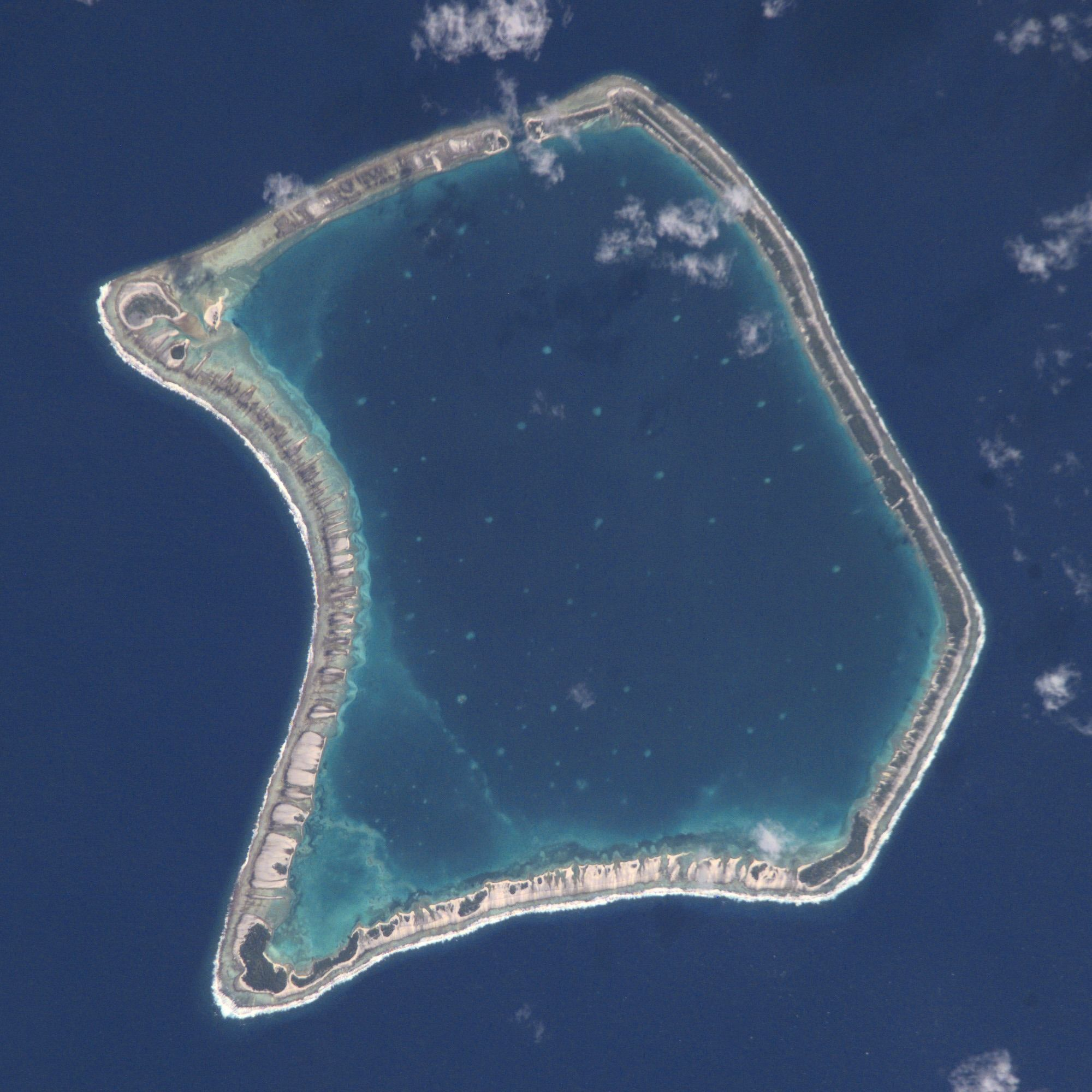 NASA Astronaut Image of Fangataufa Atoll (Tuamotu Archipelago, French Polynesia) in the Pacific Ocean